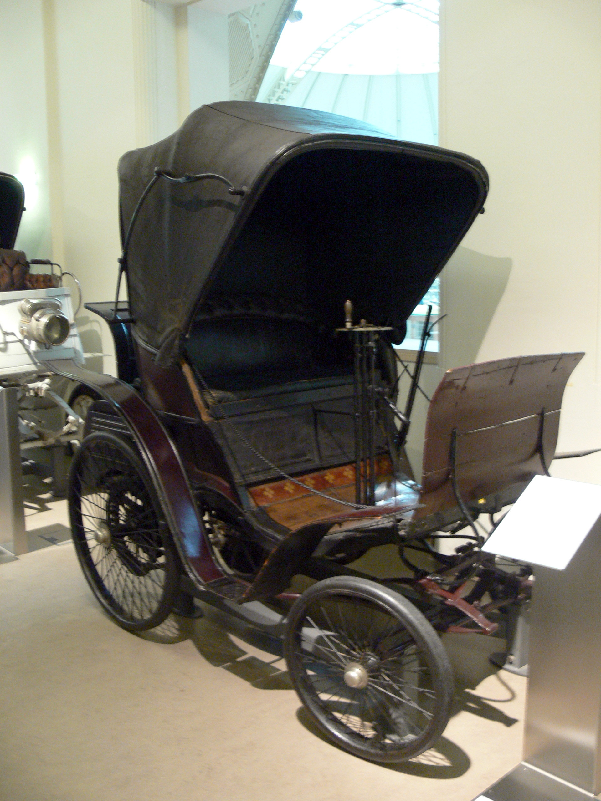 Technical Museum Vienna. Benz Velo car ( 1895 )